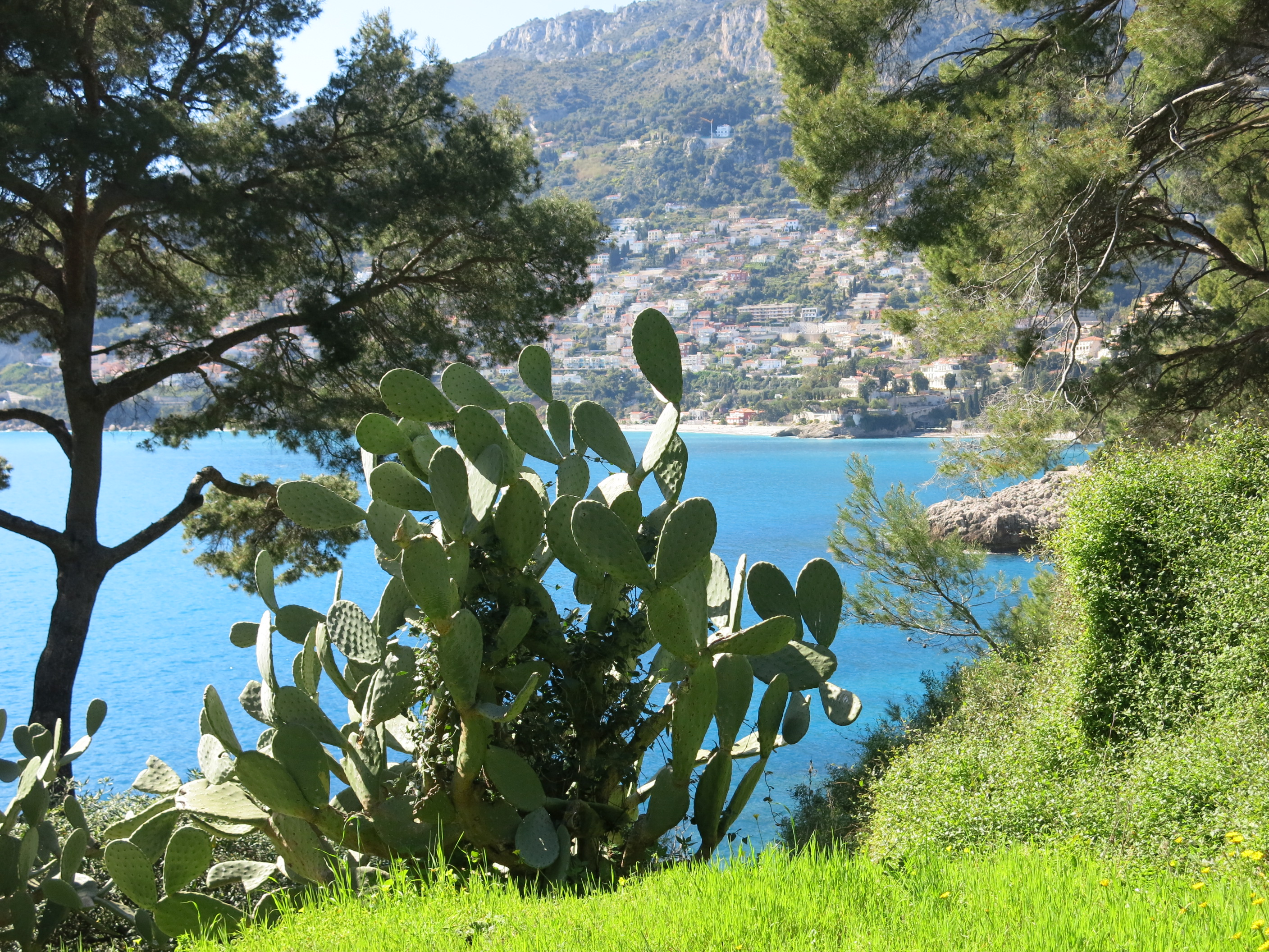 Prickly pear in the Cap-Martin with Roquebrune in the background (Alpes-Maritimes, France).